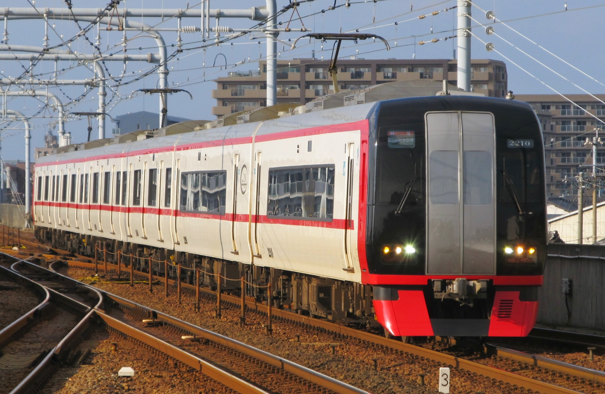 Meitetsu 2200 series. Limited Express bound for Central Japan International Airport.